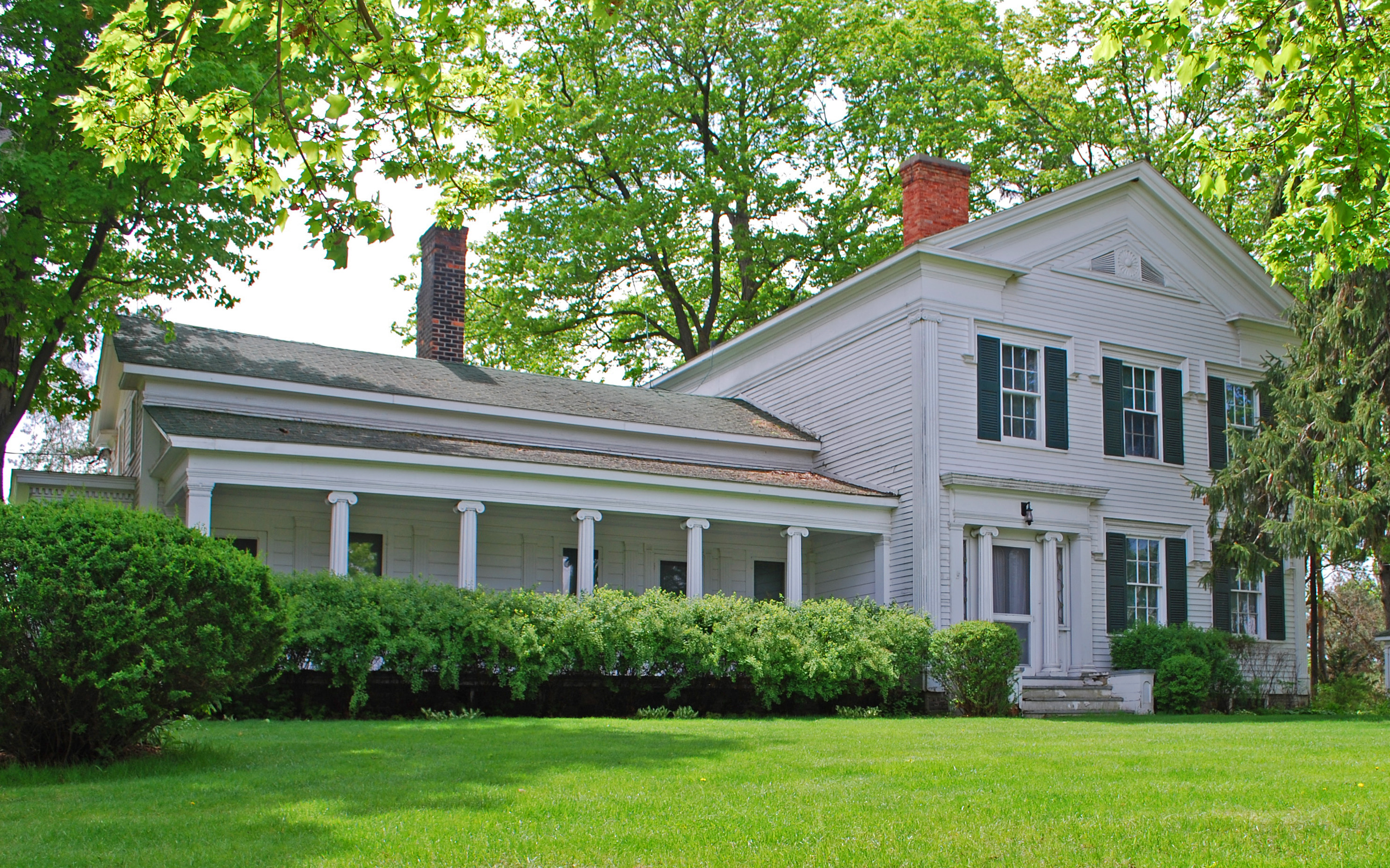 Joshua Simmons House (Greenmead), Livoni MI